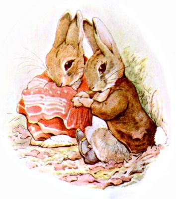 Illustration from children's book The Tale of Benjamin Bunny